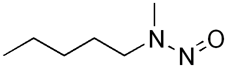 chemical structure of methylamylnitrosamine